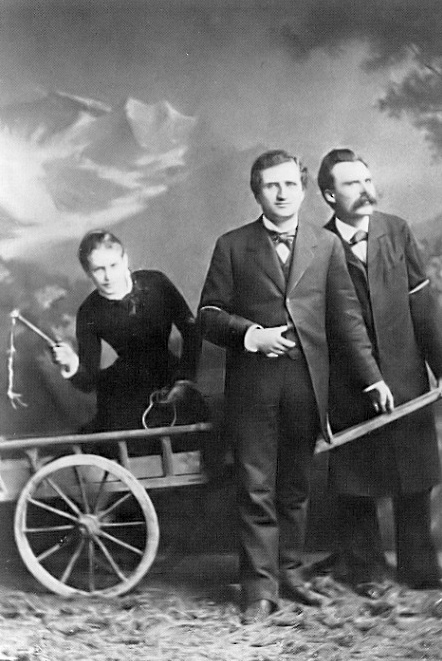 Lou Salomé, Paul Ree and Friedrich Nietzsche. A comical scene laid out by Nietzsche, as a sort of a lament by both himself and his friend, Paul, the two of whom had both recently been rejected after proposing marriage to one Lou Salomé (the relentless 'cart driver'). Photographed in the studio of Jules Bonnet in Lucerne in 1882.